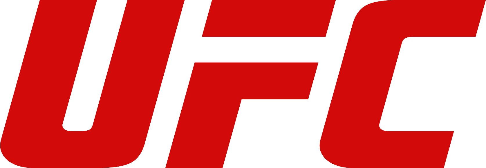 New UFC Logo